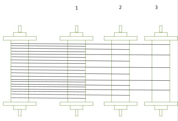 شكل توضيحي